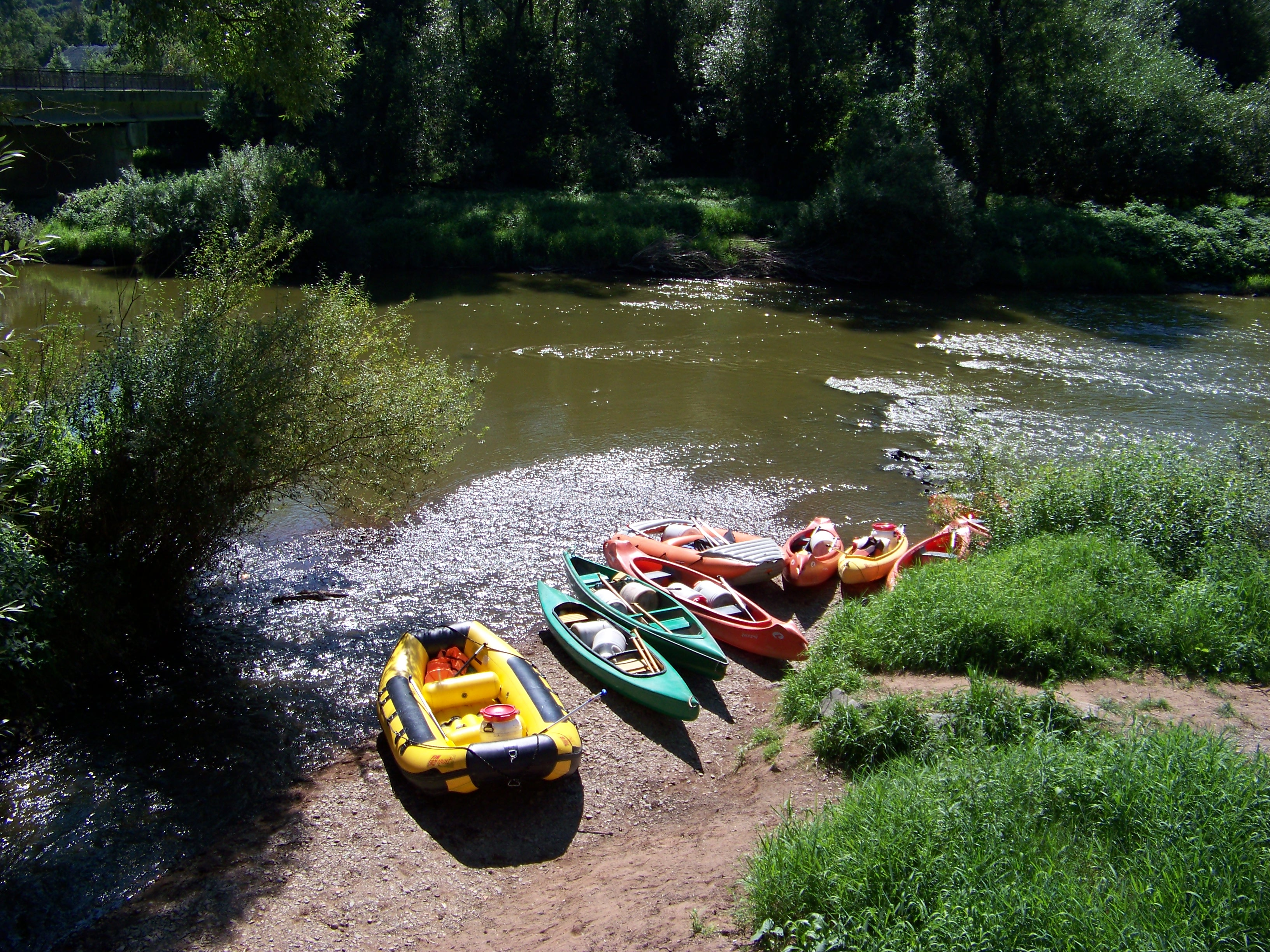 Stříbrná Skalice, Prague-East District, Central Bohemian Region, the Czech Republic. Canoes and a raft on the Sázava river.